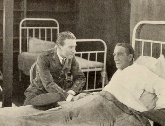 Still from the American drama film The City of Comrades (1919) with Tom Moore and an unidentified actor, on page 44 of the June 21, 1919 Exhibitors Herald.